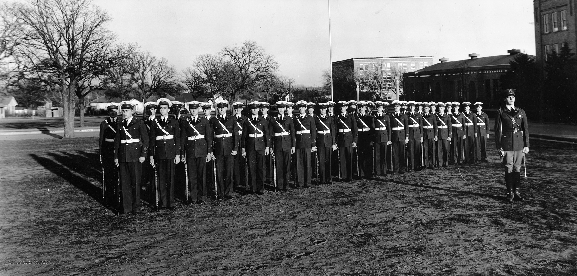 Sam Houston Rifles platoon at North Texas Agricultural College, fall semester, 1939.